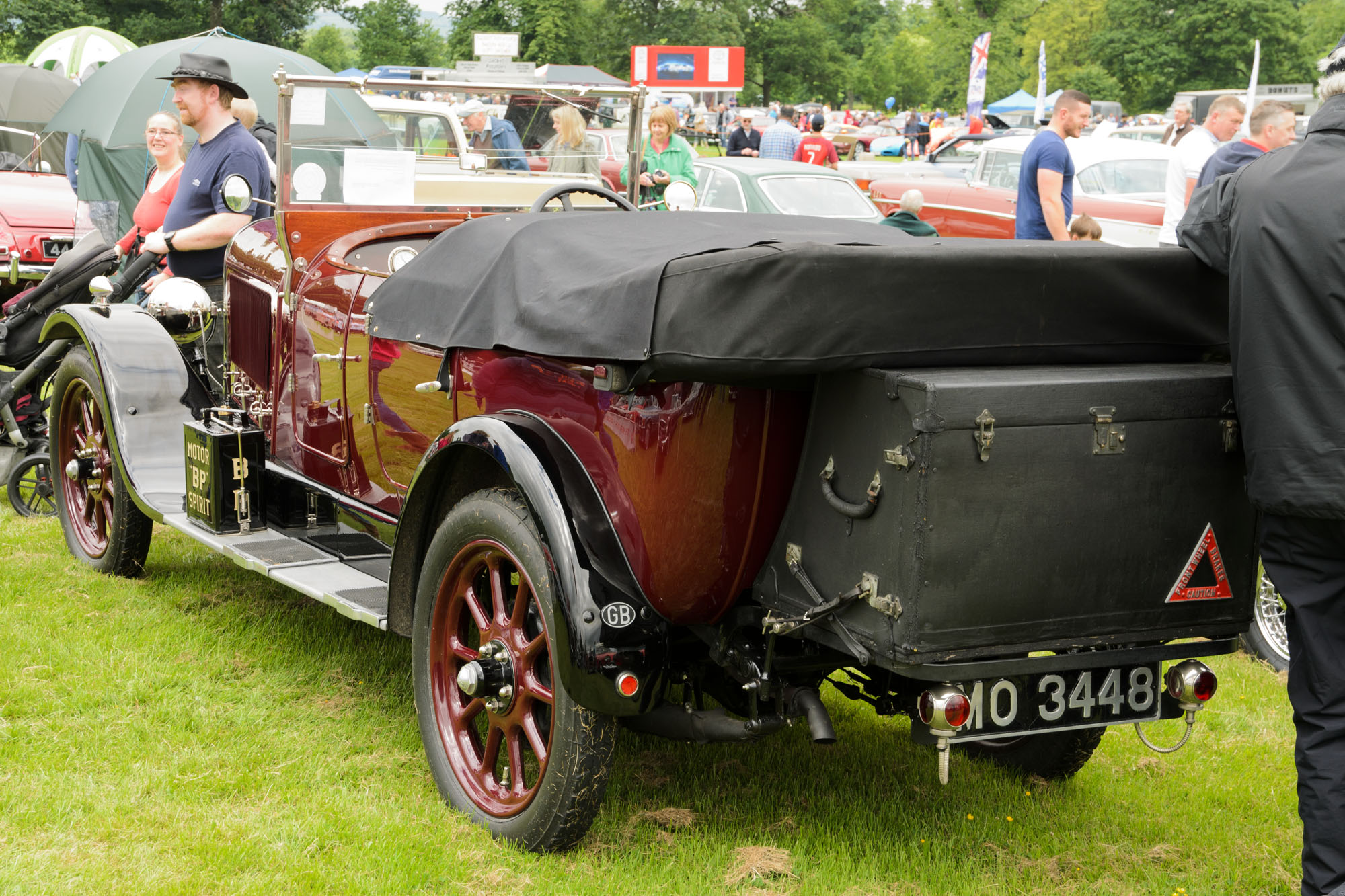 Burnley Classic Car Show 26/06/2016